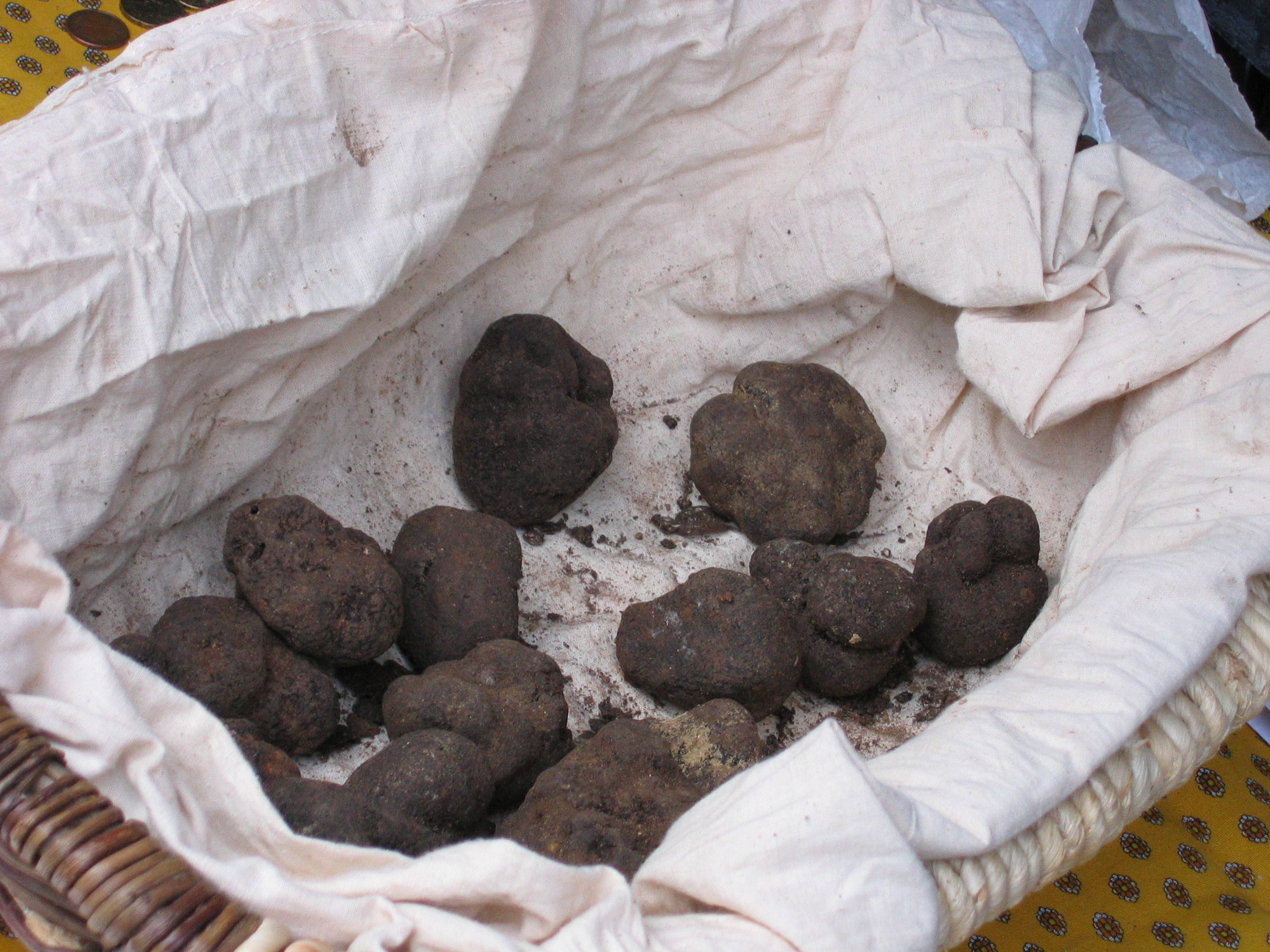 Photo taken by Poppy in January 2006. Truffle from Mont-Ventoux.